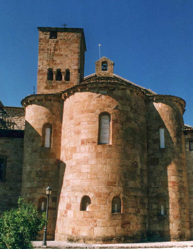 Monastery of Leire